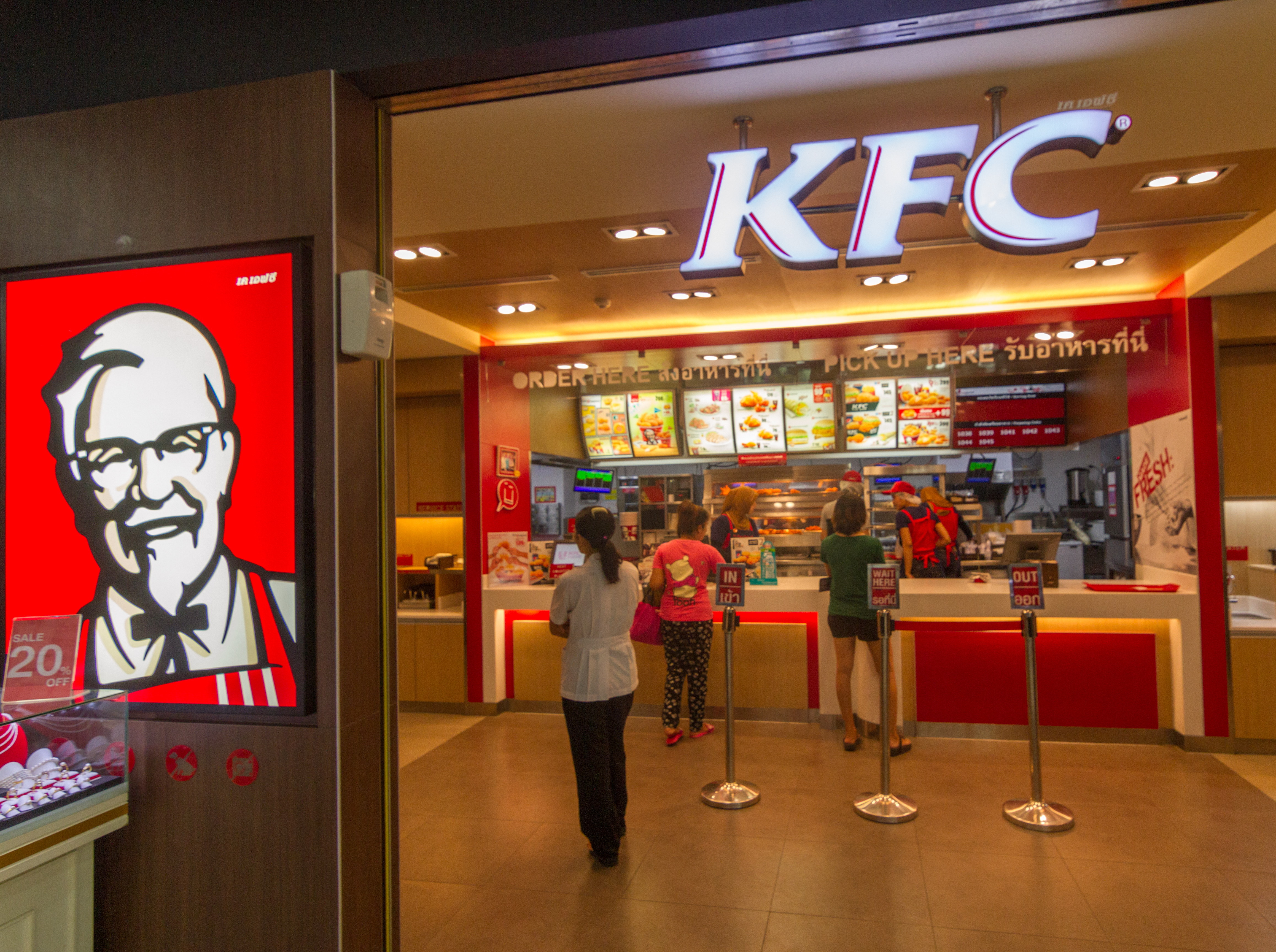 KFC in shopping centre in Krabi Town, Thailand